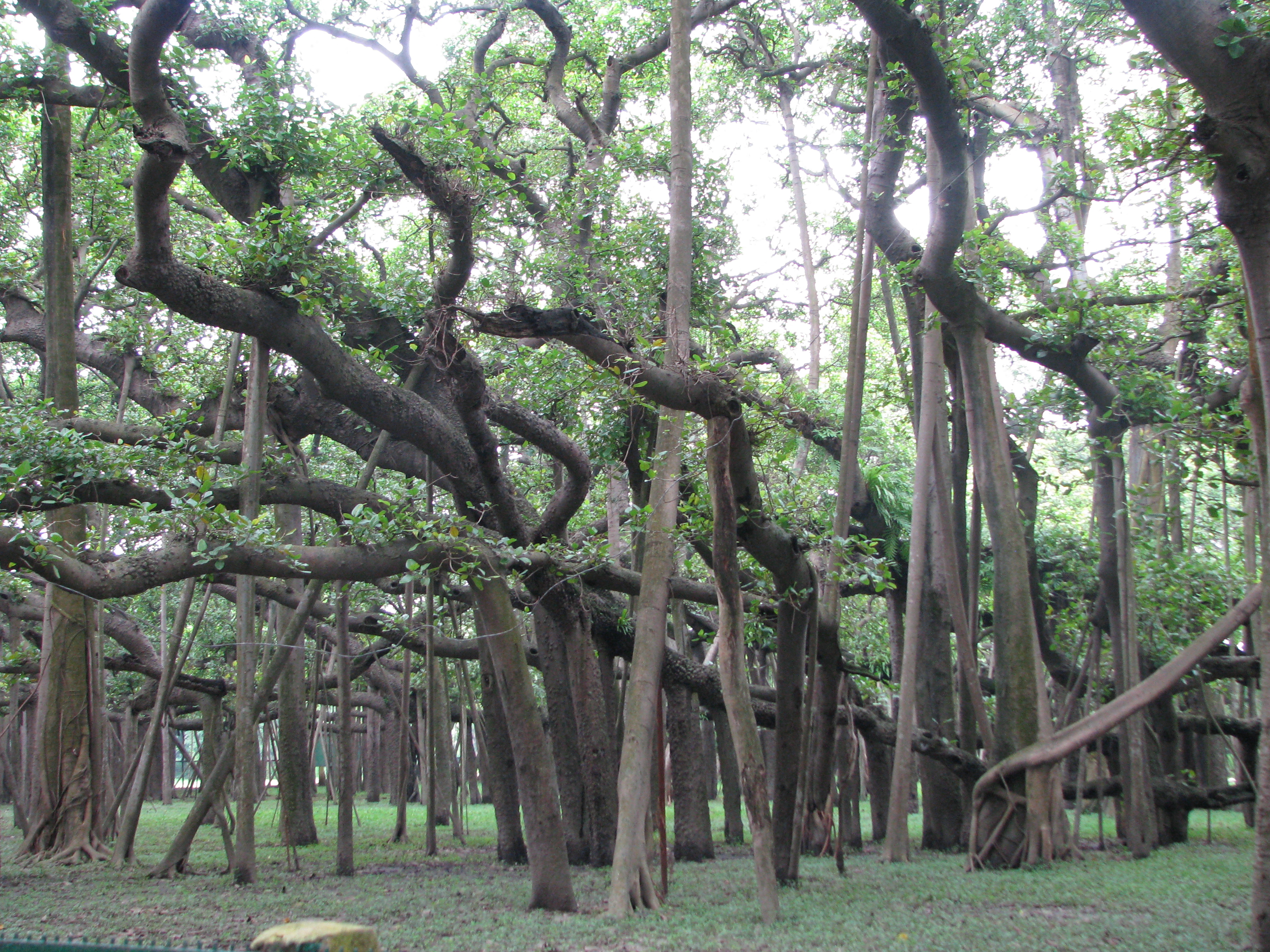 This banyan (Ficus benghalensis), known as the Great Banyan, is located in the Acharya Jagadish Chandra Bose Indian Botanic Garden in Howrah, India. The signboard says the tree is in the Guinness Book of World Records for the widest canopy at 1.5 hectares and with about 2880 prop-roots.